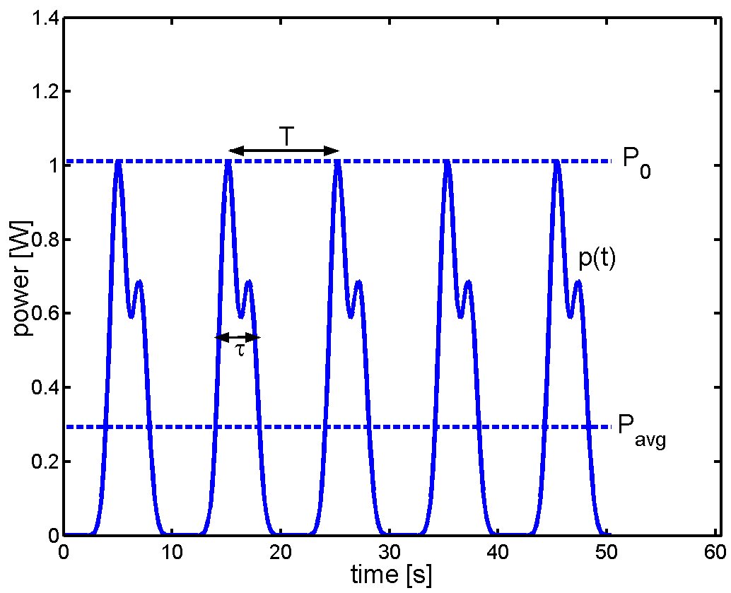 Plot of the instantaneous power p(t) of periodic signal of period T. The peak power and average power are also shown. τ {\displaystyle \tau } is the pulse width (see Power (physics) for a definition). This diagram was created with MATLAB.